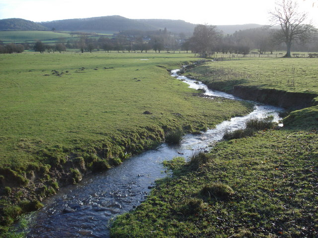 Stream near Abcott View south-east along the stream, which joins the River Clun at the bottom of the field.